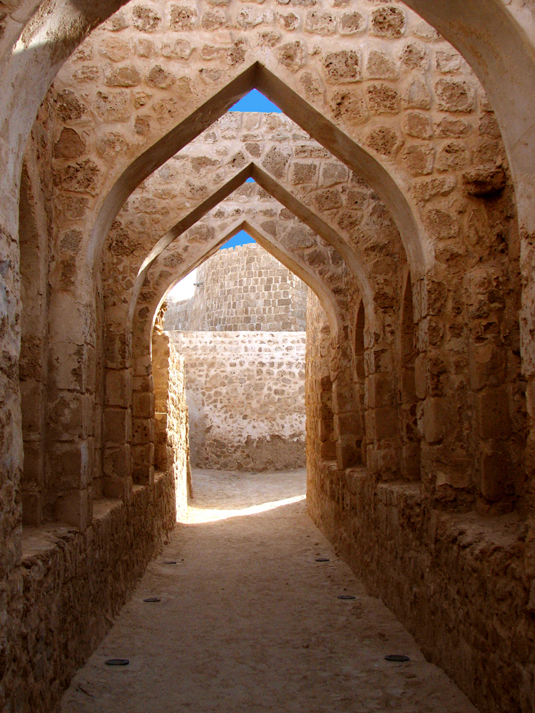 is an archaeological site located in Bahrain. It is composed of an artificial mound created by human inhabitants from 2300 BC up to the 1700's. Among other things, it was once the capital of the Dilmun civilization, and served more recently as a Portuguese fort. For these reasons, it was inscribed as a UNESCO World Heritage Site in 2005.